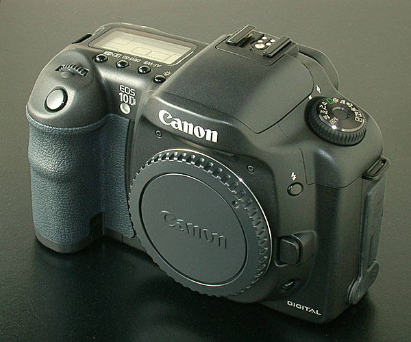 Canon EOS10D body